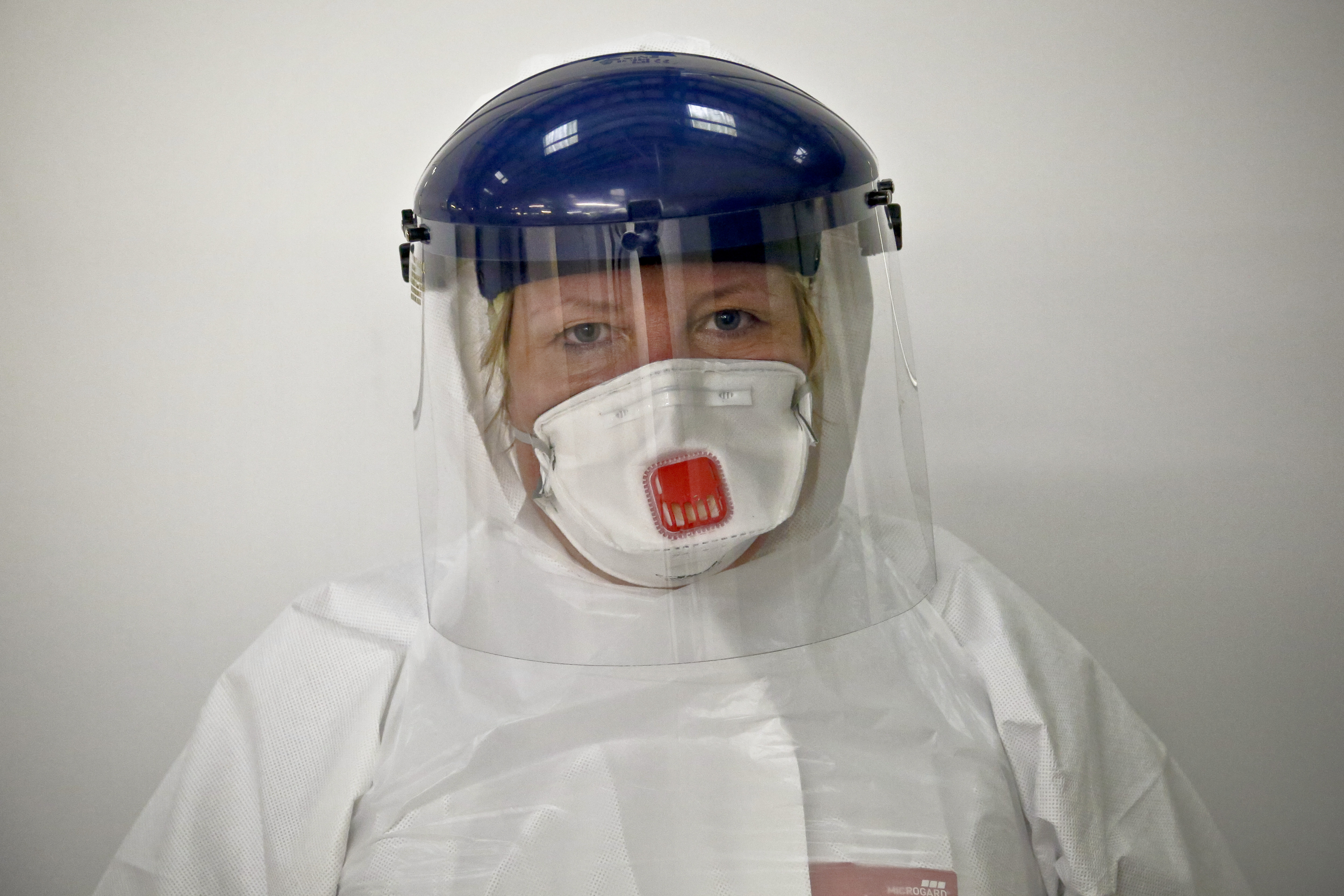 Nurse Donna Wood in her safety suit Senior Sister Donna Wood has been nursing for 29 years. She's one of the many medics from across Britain's National Health Service who are joining the UK's fight against Ebola in Sierra Leone. "I'd been following the stories on the news and I felt I had to do this straight away: I could use the skills I’ve got to make a difference and join a team to help bring the disease under control." The medics - who include GPs, nurses, clinicians, psychiatrists and consultants in emergency medicine - will work on testing, diagnosing and treating people who have contracted the deadly virus. "I'm feeling very prepared. We’ve had gold standard training – second to none. Now I just want to get out there and use my skills. You don’t think of it as being heroic. It’s just what we do." Find out more about the medics behind the mask in our special feature: bit.ly/medicsbehindthemask